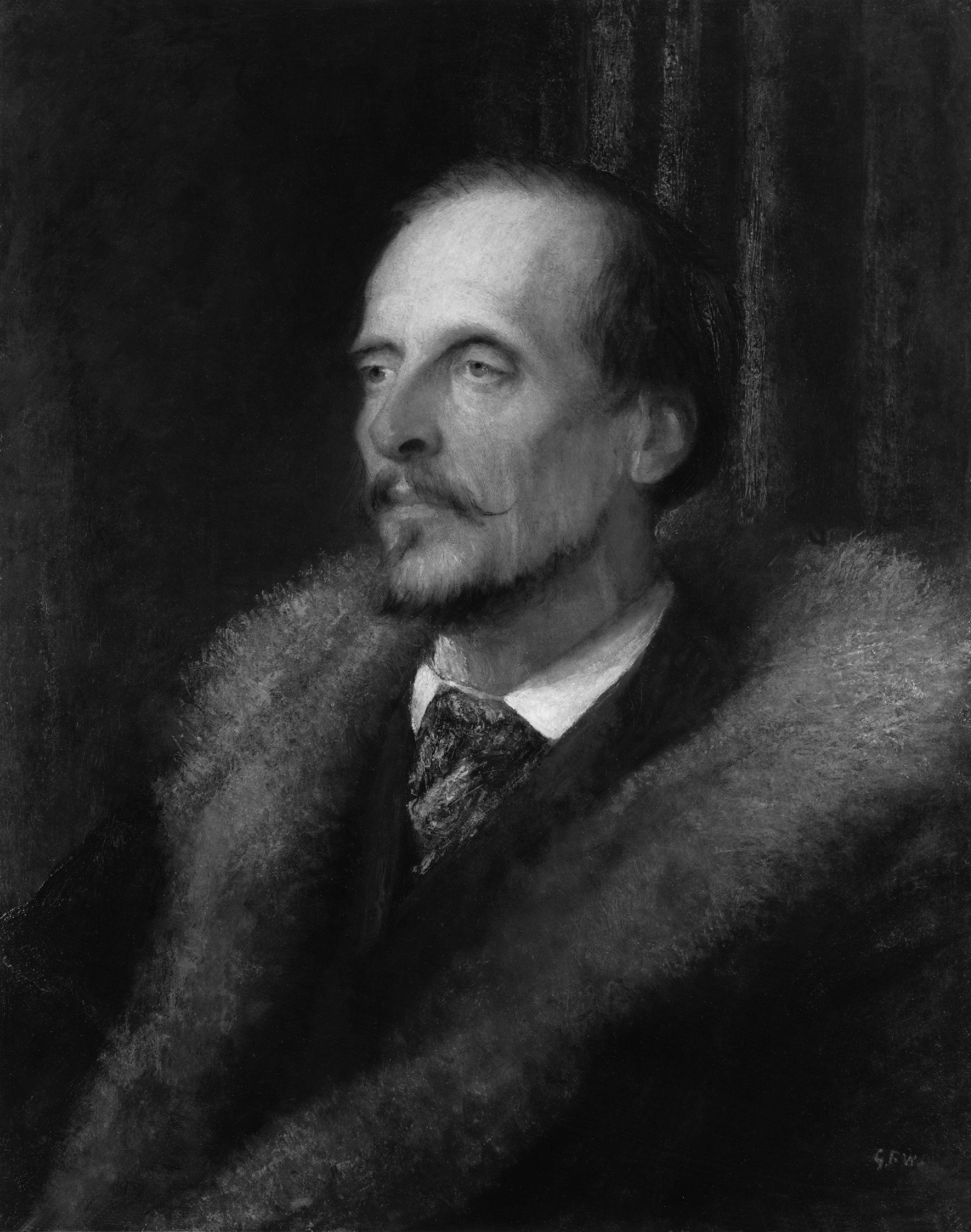 Frederick Temple Hamilton-Temple-Blackwood, 1st Marquess of Dufferin and Ava, by George Frederic Watts (died 1904), given to the National Portrait Gallery, London in 1902. All images in this batch have been confirmed as author died before 1939 according to the official death date listed by the NPG.